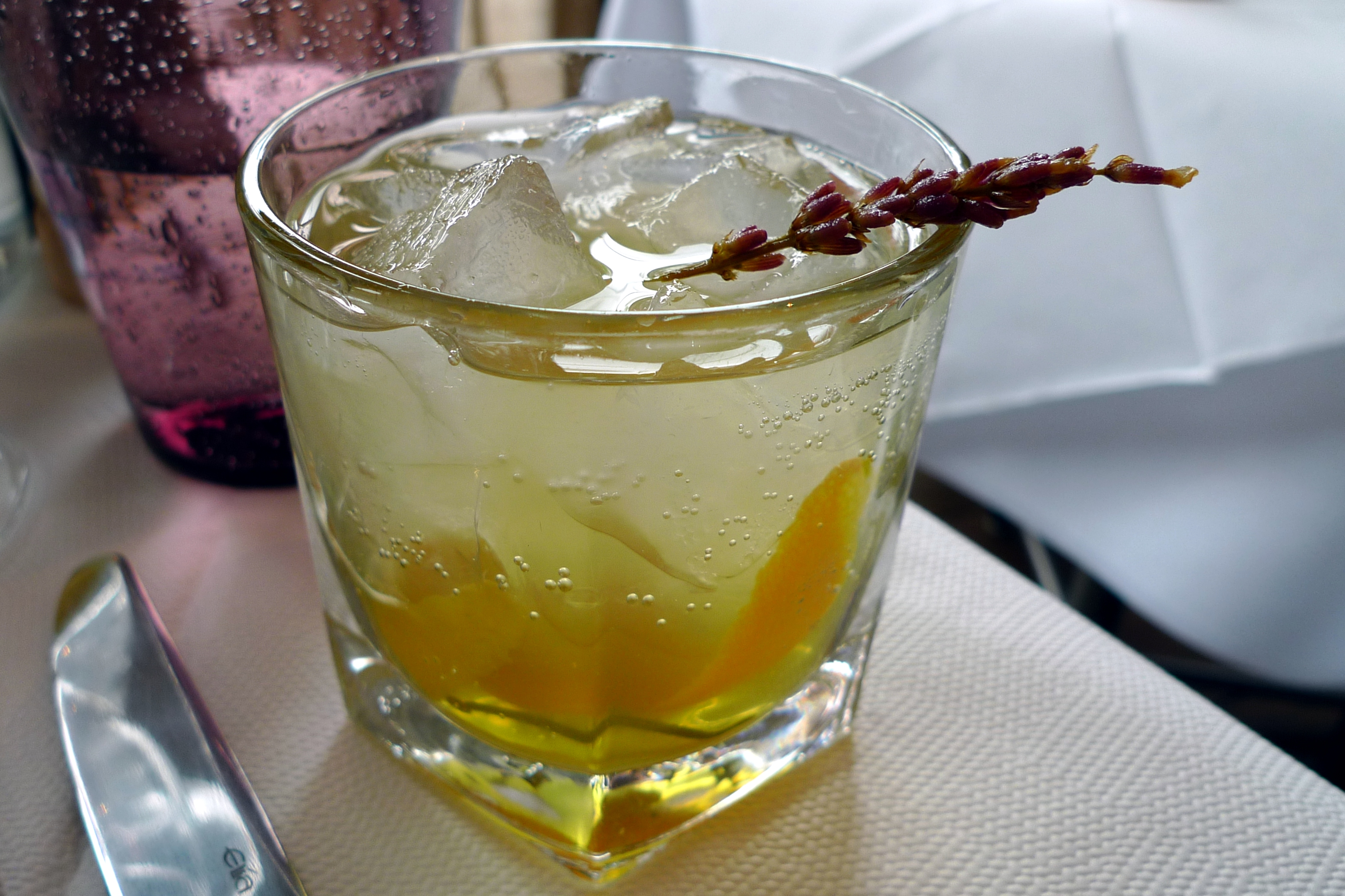 The 'Provence infusion' aperitif. At Bistrot Bruno Loubet, St Johns Square.